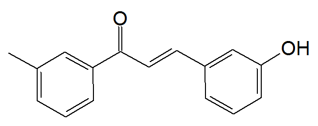 Chemical structure of methyl hydroxychalcone